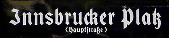 Mandatory typographical ligatures in German blackletter type-setting. Photograph shows original signage from 1910 in Berlin's subway station "Innsbrucker Platz (Hauptstraße)". Note how ligatures ck, tz and sz are maintained in spaced setting. Font is Schwabacher(?). Picture taken June 1st, 2007, by User:Plauz for Wikipedia